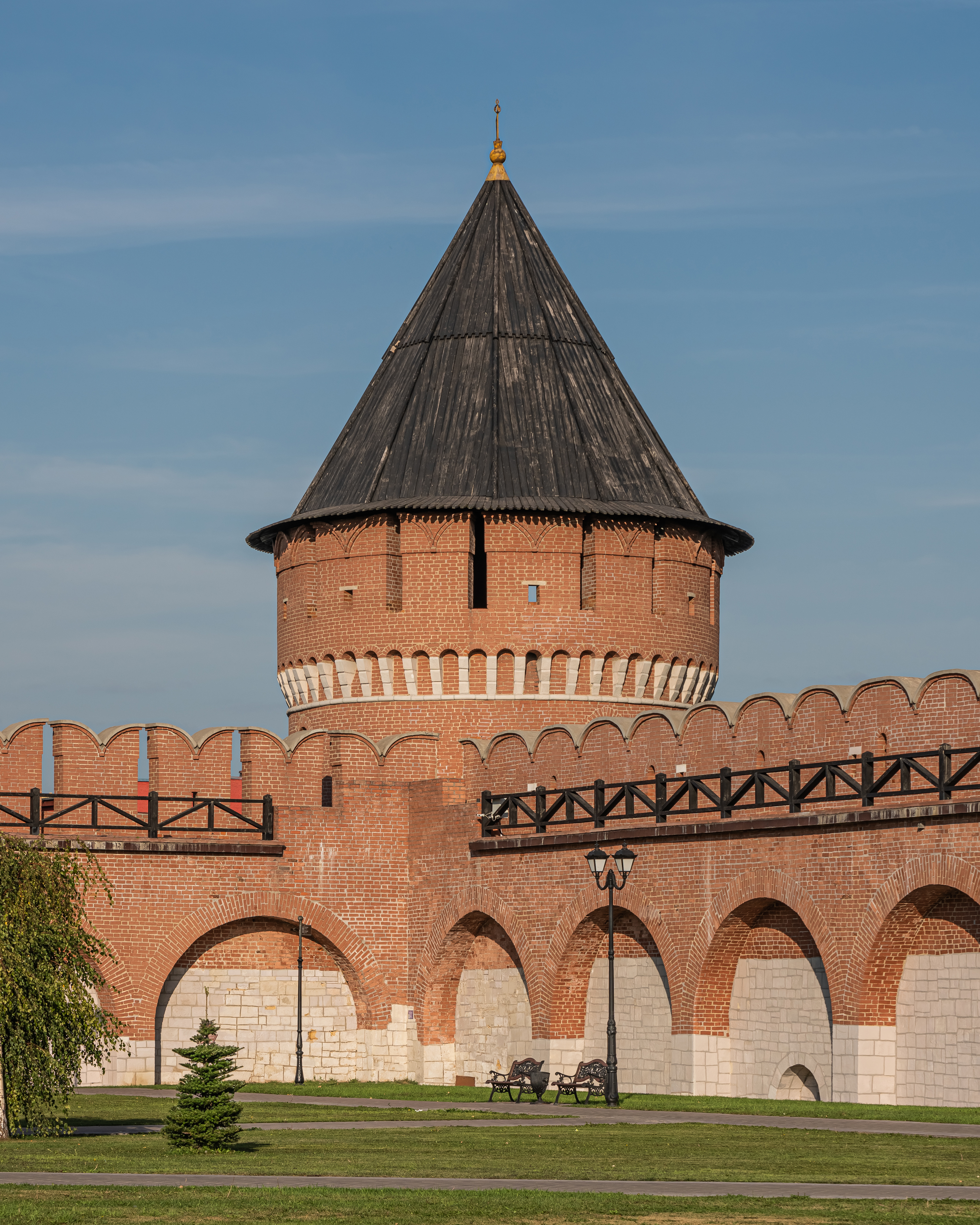 Ivanovskaya Tower of the Kremlin in Tula, Russia